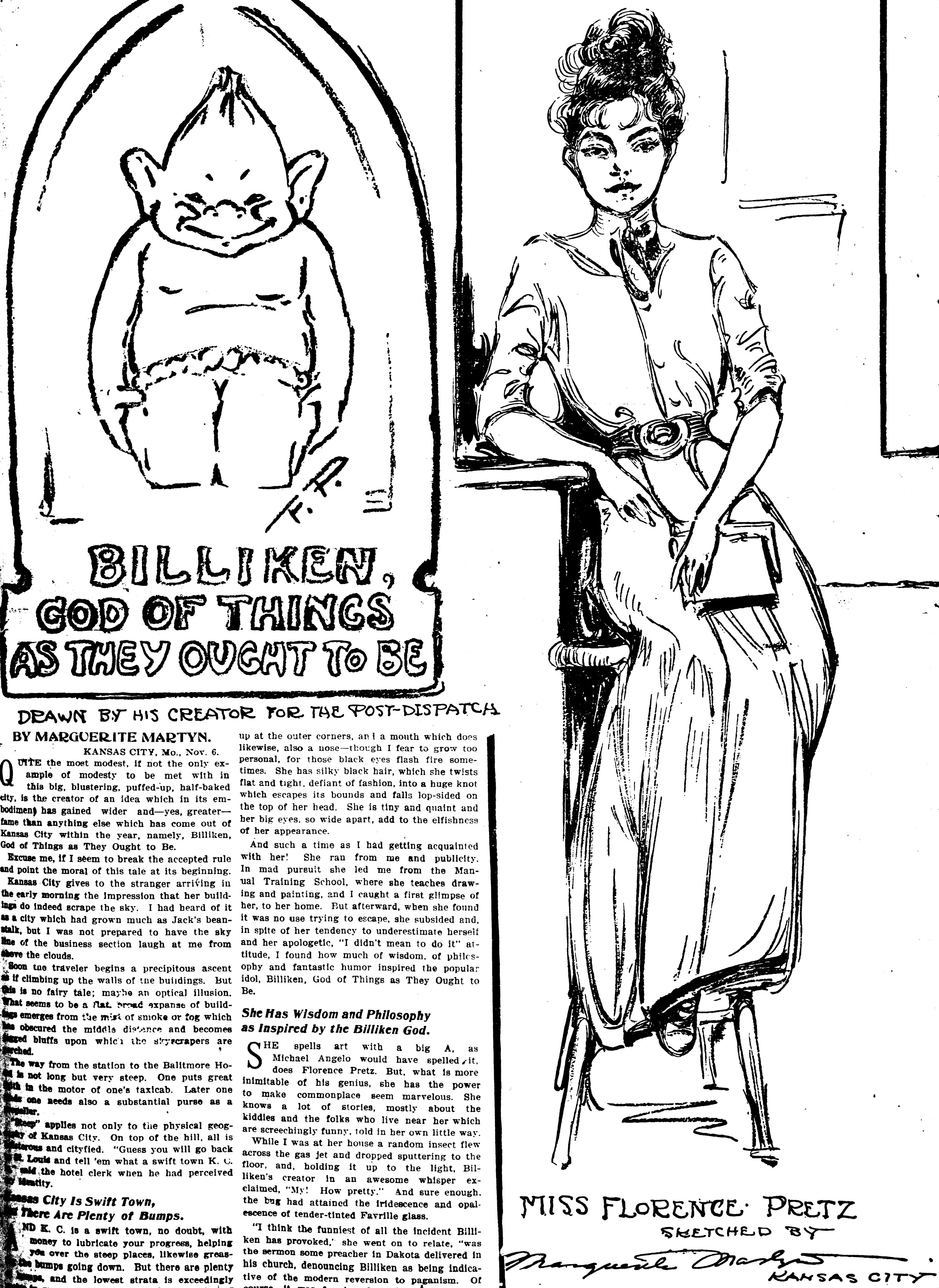 Billiken drawing at left from this ‘’St. Louis Post-Dispatch’’ page of November 7, 1909, is by Florence Pretz. Drawing at right of Miss Pretz is by journalist Marguerite Martyn